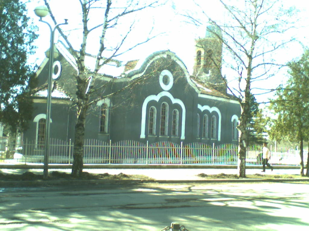 Church "Saint Petka" in the town of Zavet, Bulgaria